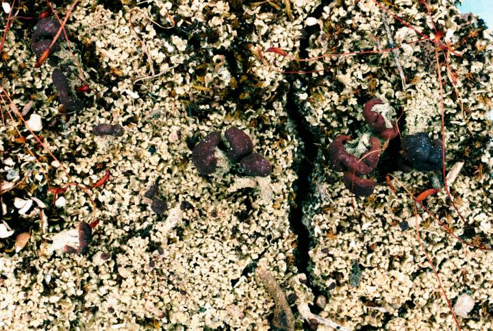 Cladonia peziziformis (With.) J.R. Laundon, 1984 [Syn. Cladonia capitata (Michx.) Spreng. 1827] (photograph of a herbarium specimen showing small, rounded primary squamules) Growing on soil under Pinus virginiana in an open field near the Grand Overlook at Soldiers Delight Natural Environment Area, Owings Mills, Baltimore County, Maryland, USA; collected and identified by Elmer G. Worthley (No. L-62, 3 Apr 1983); specimen is now in the Lichen Herbarium of the New York Botanical Garden.